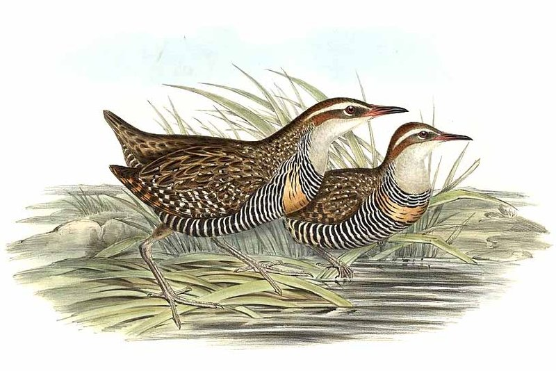 Buff-banded Rail (Gallirallus philippensis). A lithograph by John Gould.